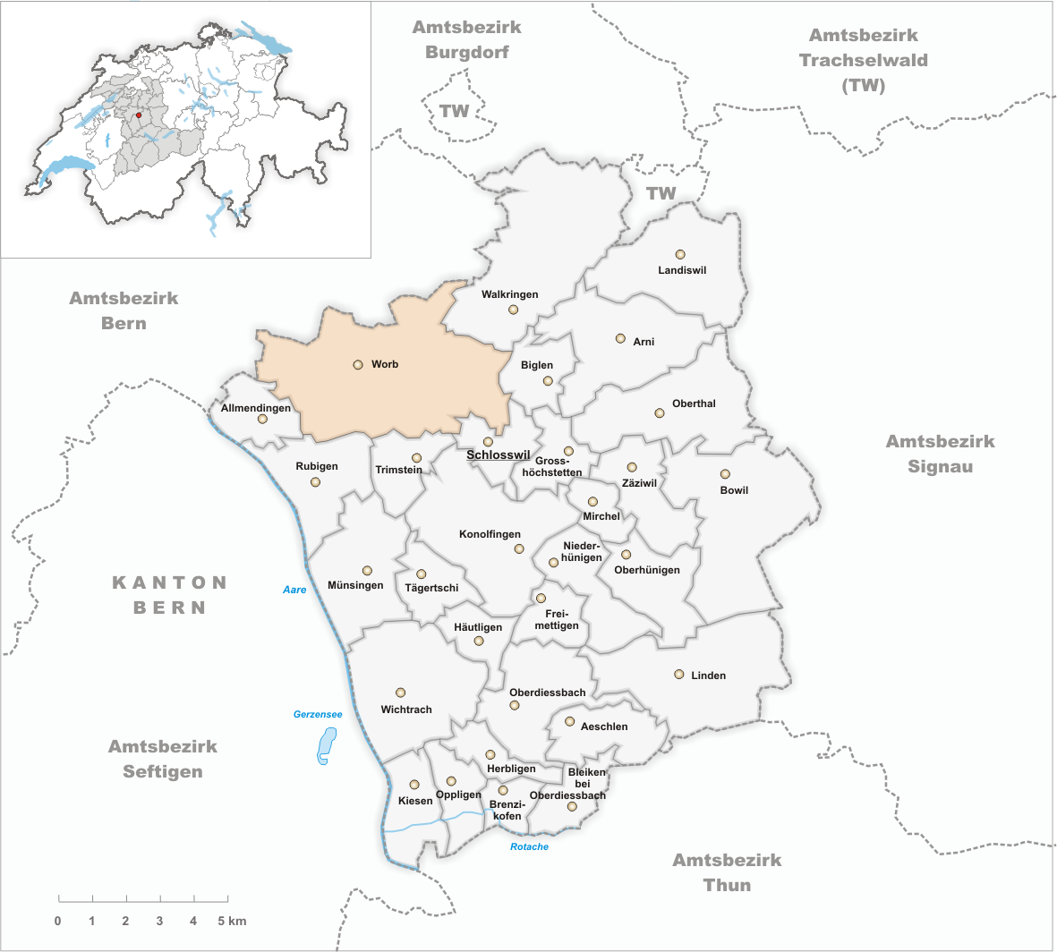 Municipality Worb